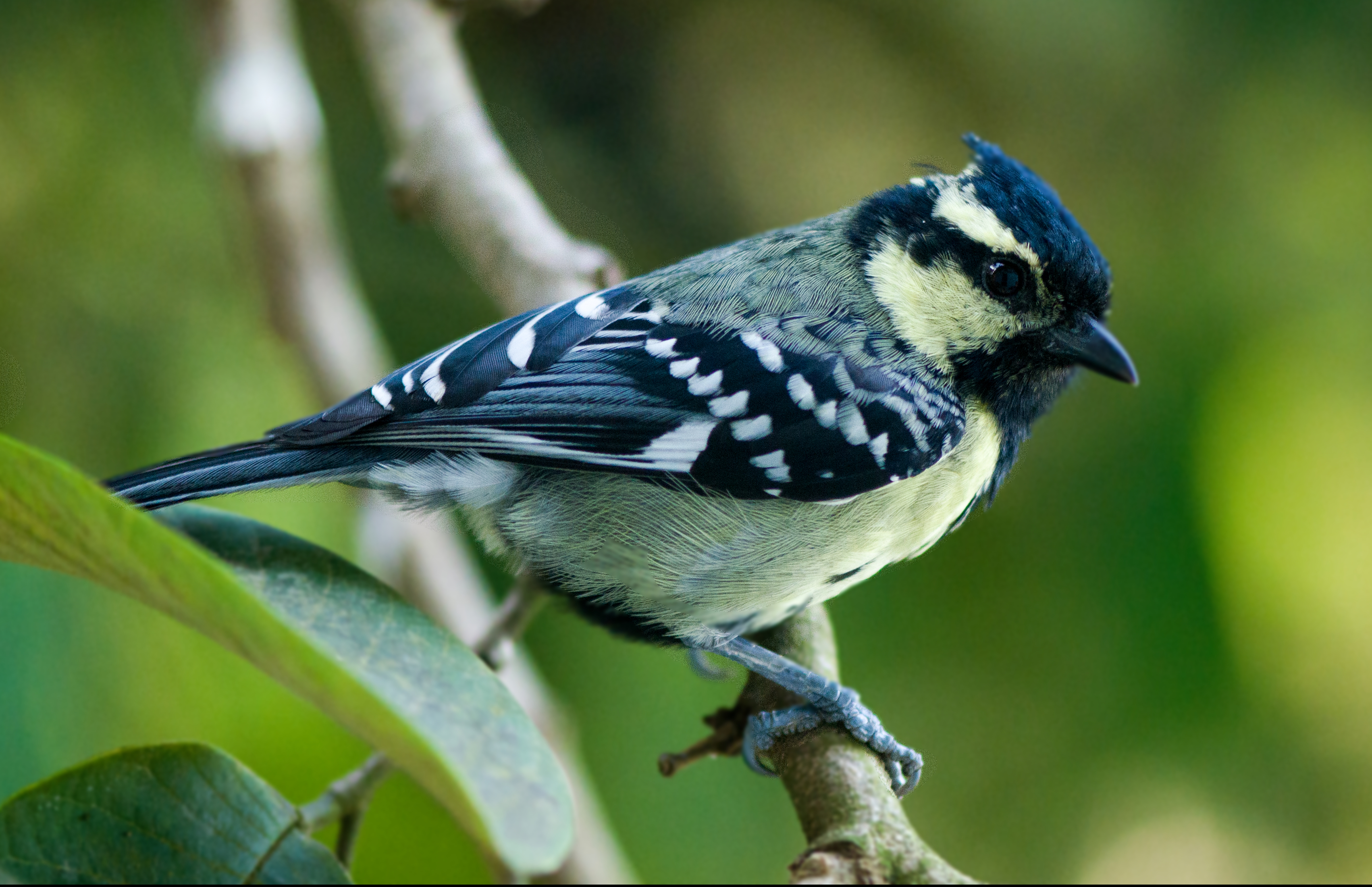 Indian black-lored tit or Indian yellow tit known as Macholophus aplonotus recorded from Chinnakkanal,Idukki District,Kerala in India.